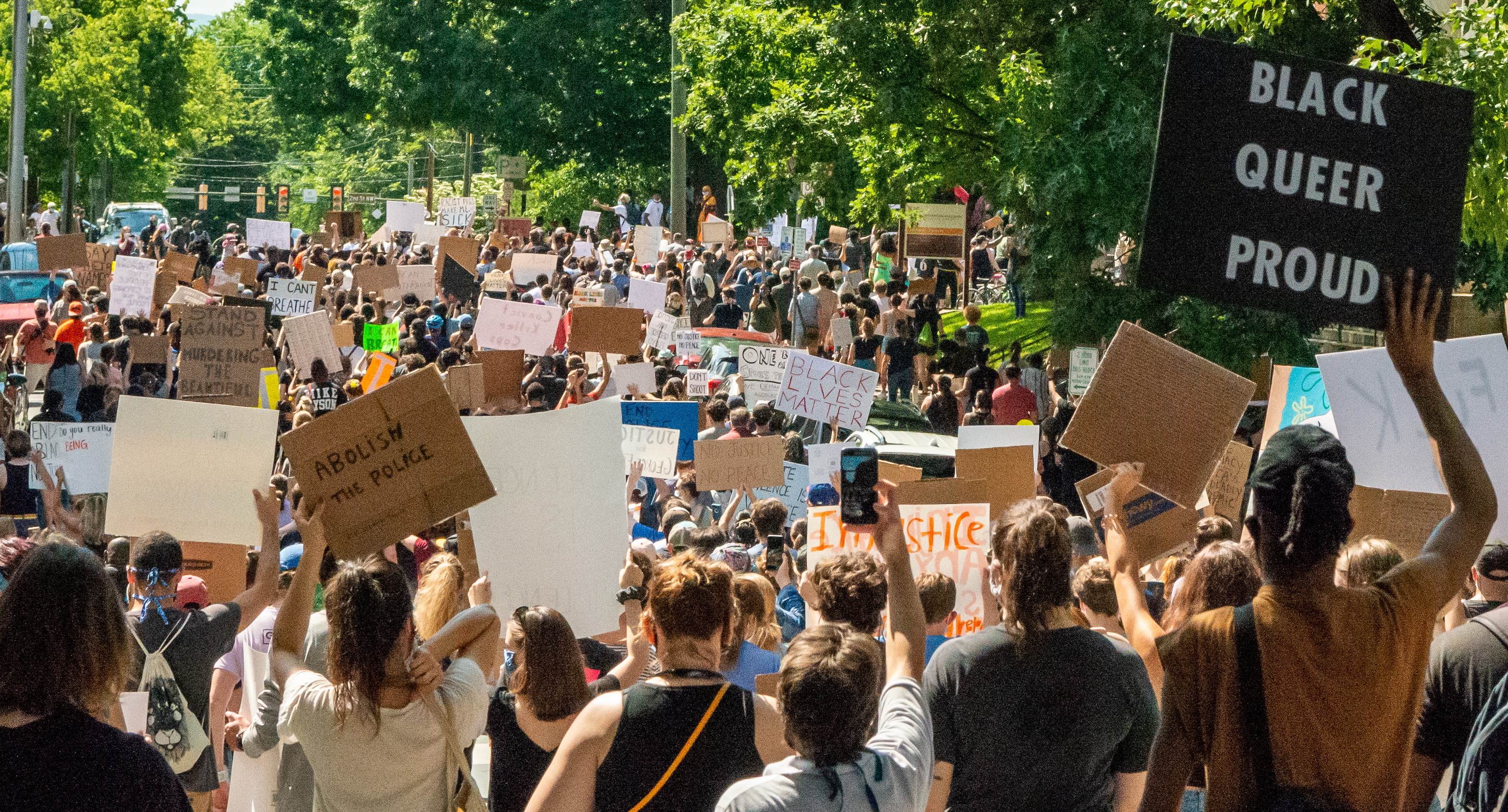 5.30.20 Black Lives Matter Protests Charlottesville, VA, the George Floyd protests